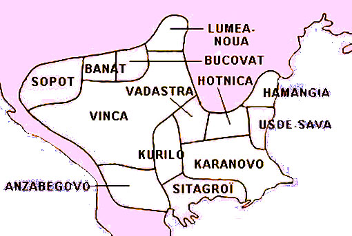 Culture Vincha peoples areals, map Milomir Bogdanov